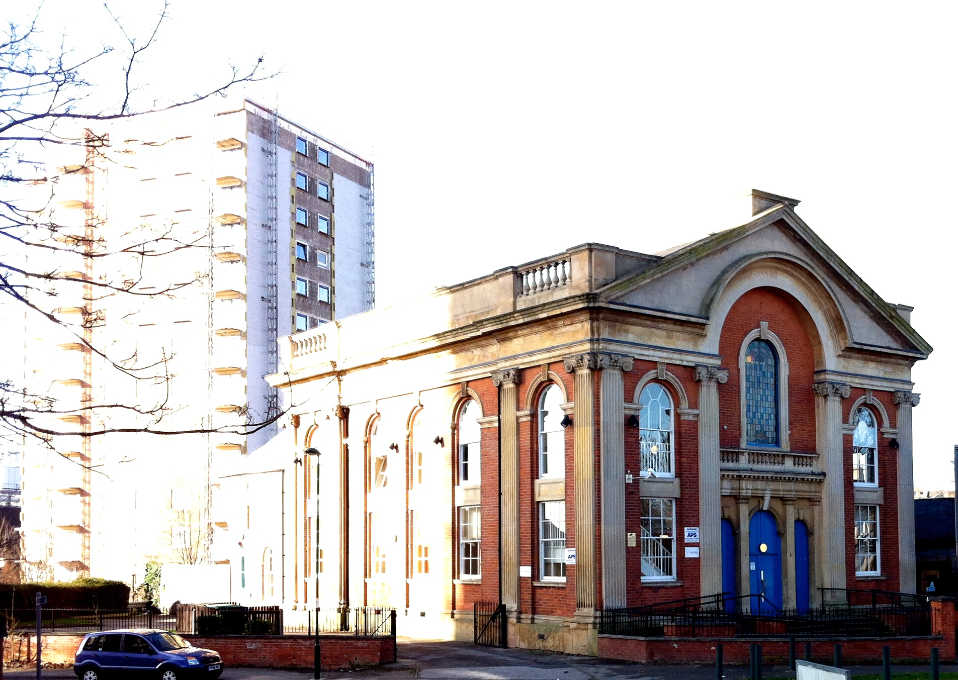 Later the Albion Night Shelter